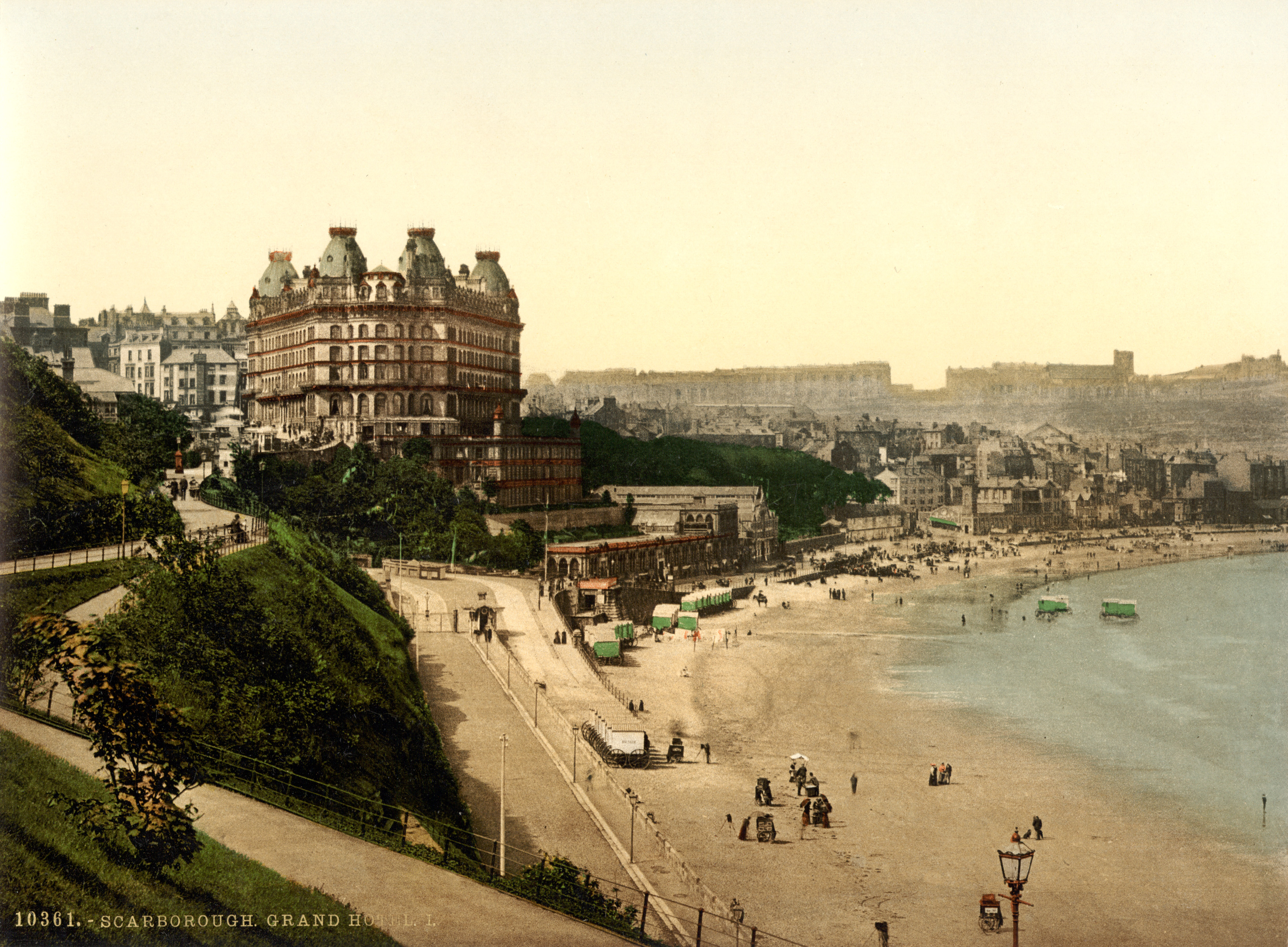 Grand Hotel, Scarborough, Yorkshire, England. 1 photomechanical print : photochrom, color.